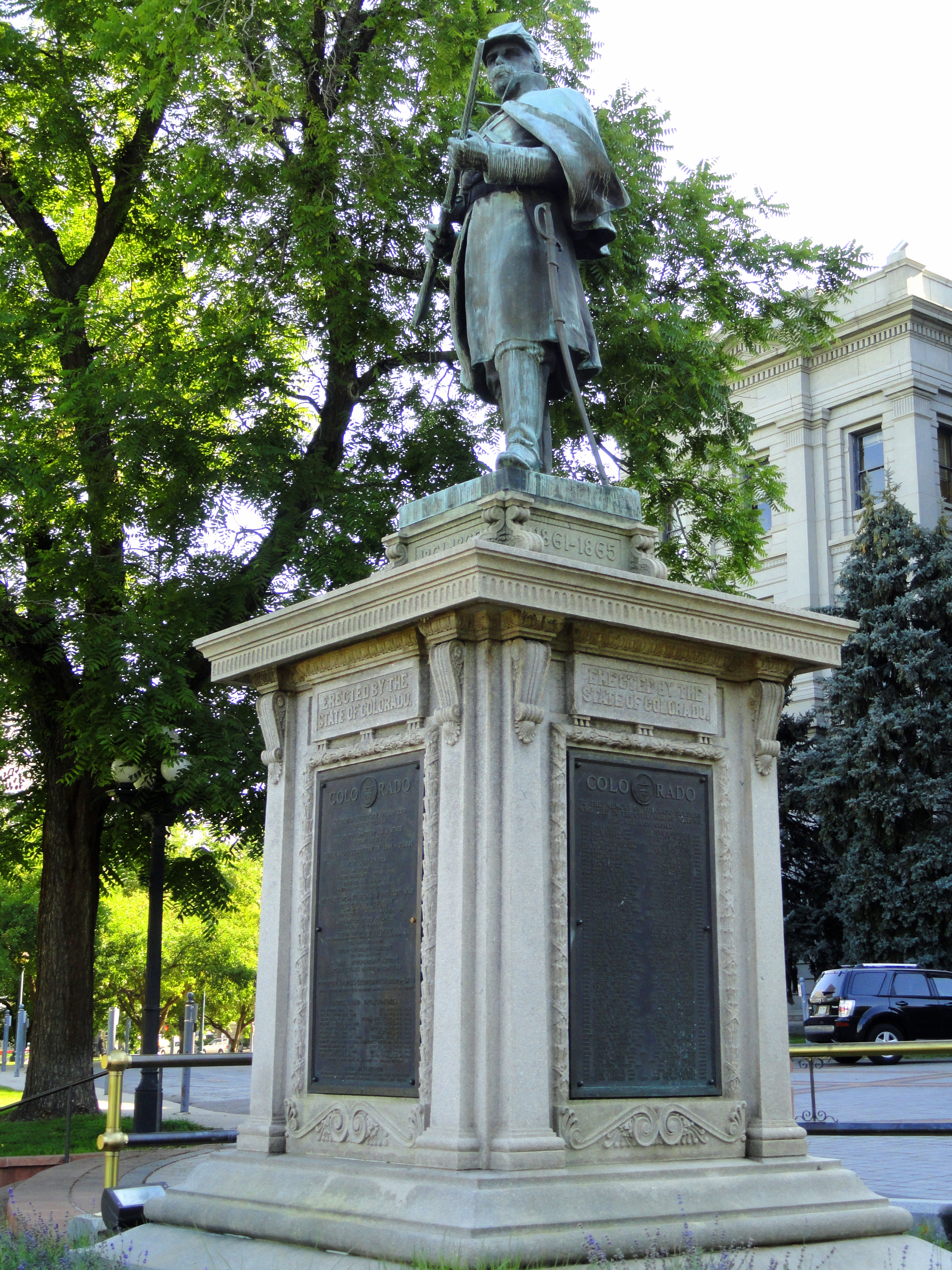 Civil War Monument by Jakob Otto Schweizer, Civic Center Park, Denver, Colorado, USA. This statue was created in 1909 and hence is no longer in the public domain.